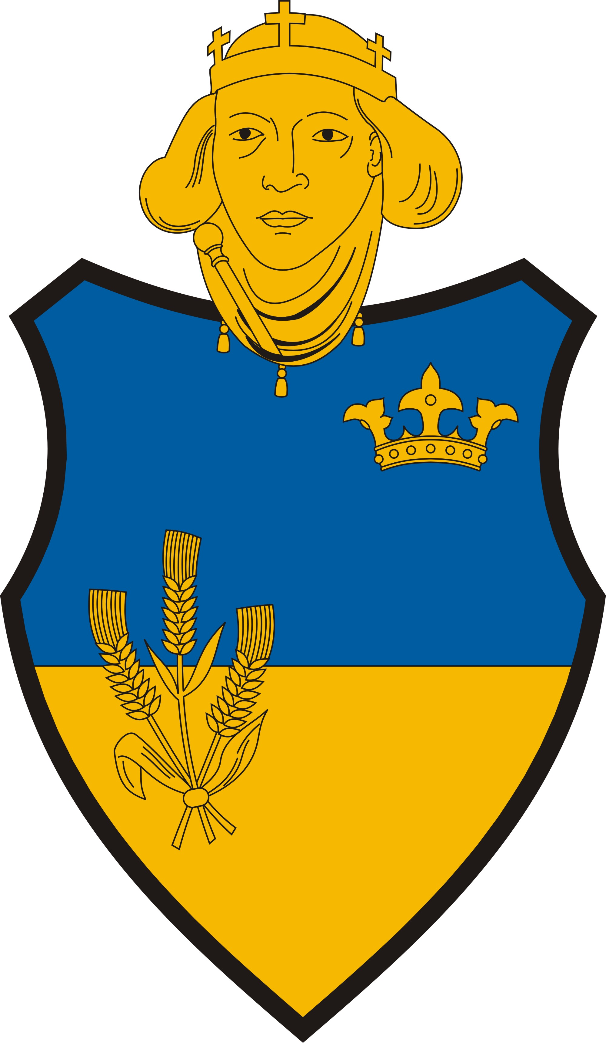 Coat of arms of Küngös, Hungary